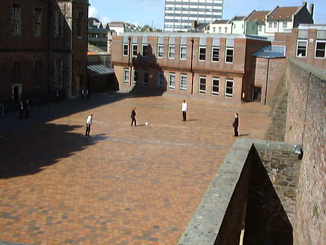 The yard of QEH in Bristol.